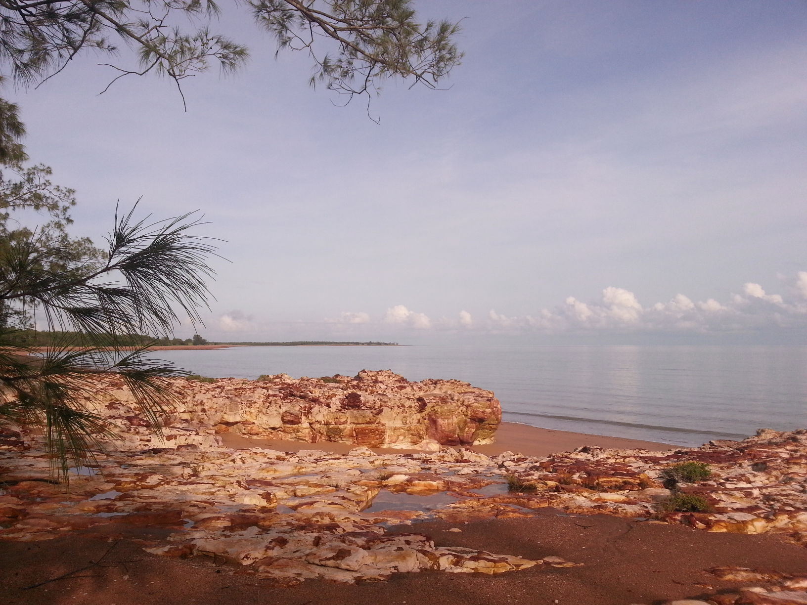 Seascape showing rock outcrop on Imaluk beach, Cox Peninsula.